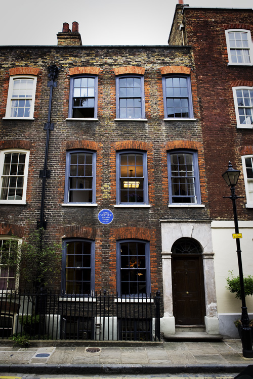 Timothy Everest's Spitalfields, London, atelier. a three-storey, early Georgian townhouse (built in 1724), just north of Old Spitalfields Market in nearby Elder Street – the former home of artist Mark Gertler (1891–1939). 32 Elder Street, Spitalfields, London E1 6BT